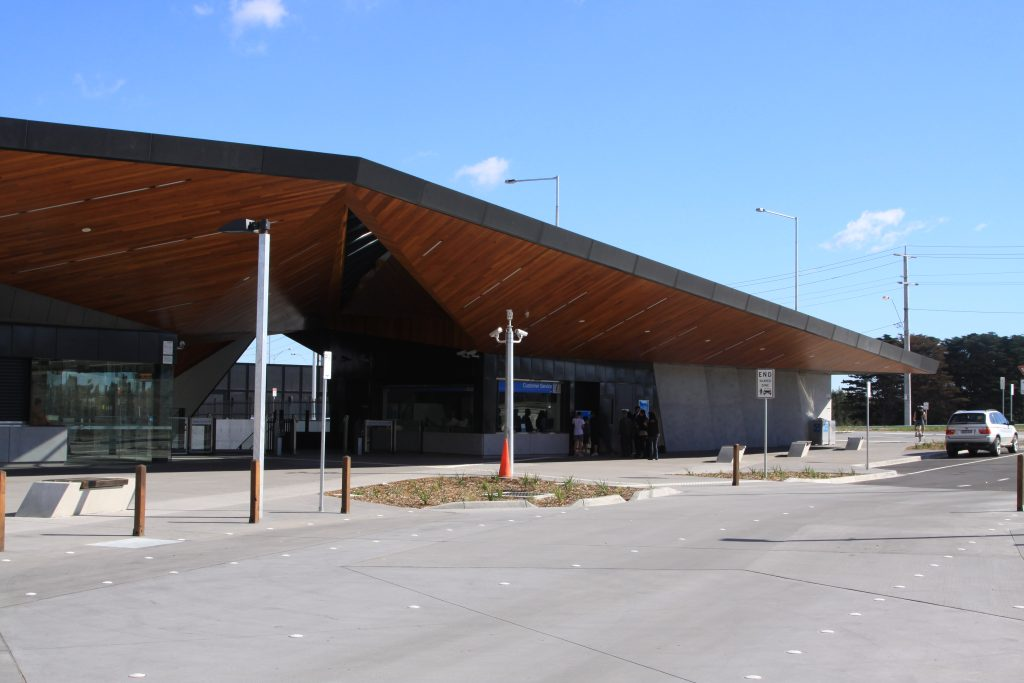 Main entrance of South Morang railway station from streel level, looking in the up direction towards Epping.